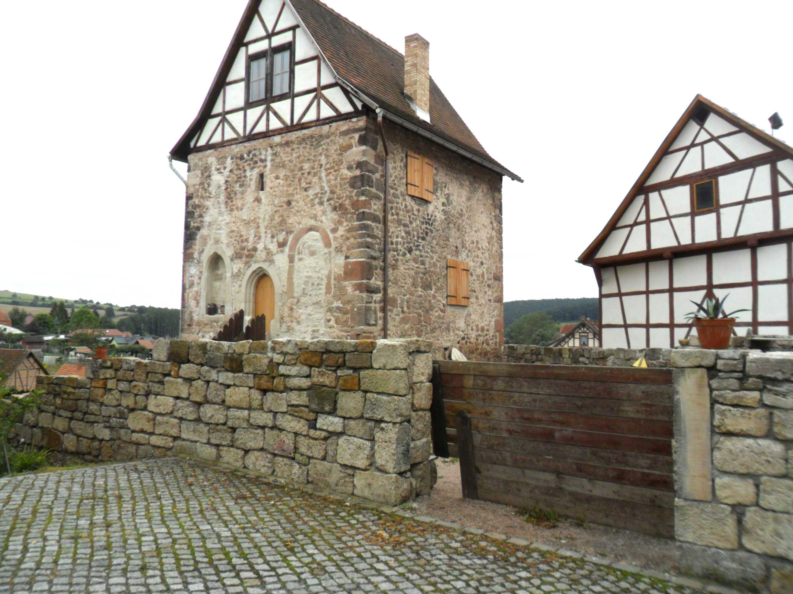 Schwallungen (Church-Castle); District of Schmalkalden-Meiningen; Federal State (and Free State) of Thuringia; Germany Build presumable in the 13/14th century; later changes; of special interest: Former “Gaden-Kirchenburg” (to the inner side of the curtain, within the courtyard there were wooden houses for storing goods); massive church tower; close to there is the “Kemenate”, a former additional strong tower which was modified into living space within the year 1537.